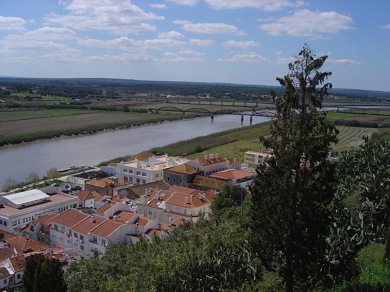 Railway bridge and new bridge, Alcácer do Sal, Alentejo, Portugal